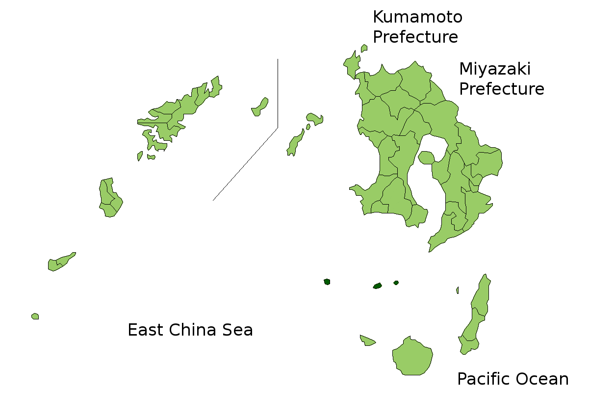 Location Map of Mishima in Kagoshima Prefecture, Japan